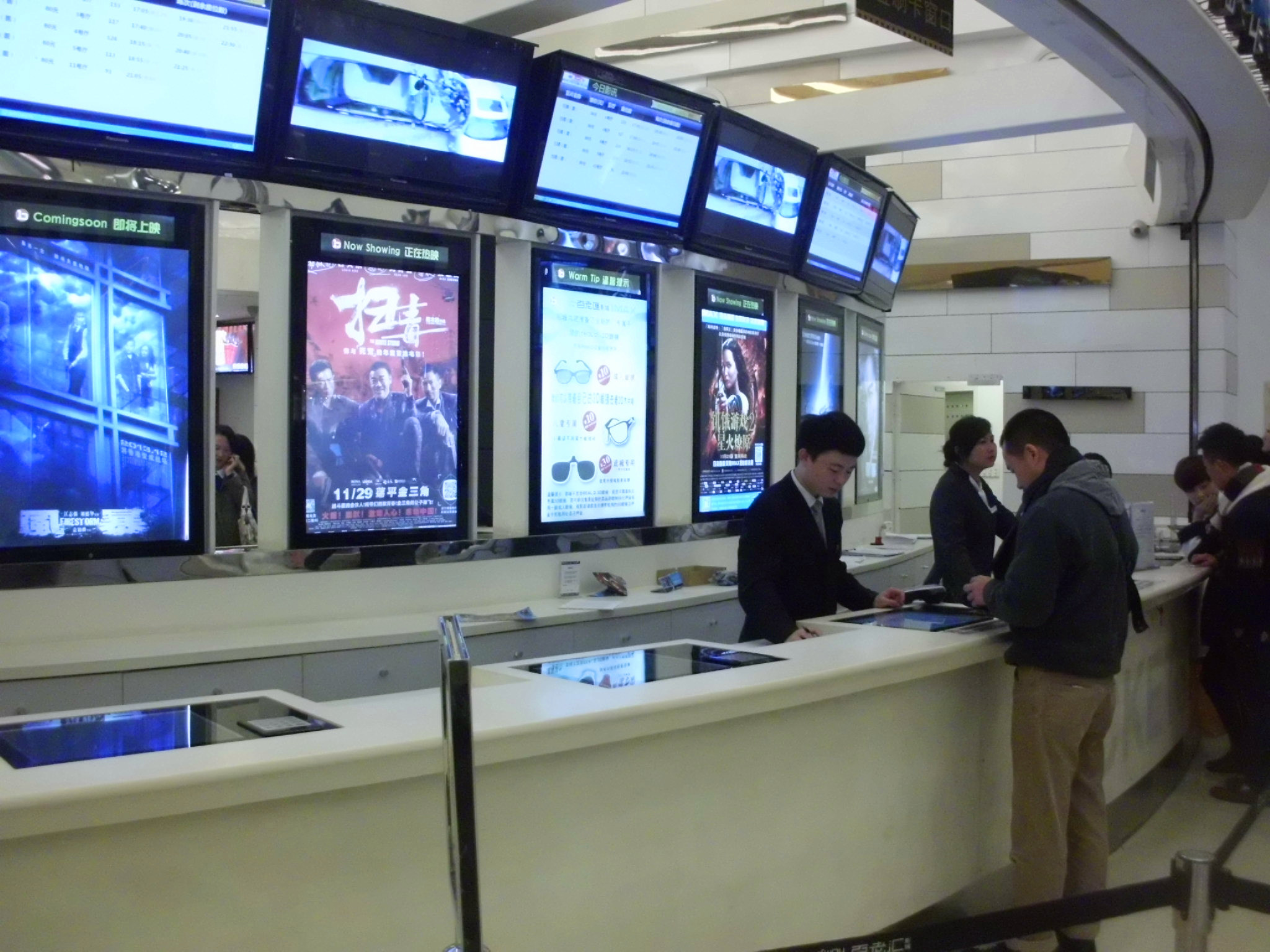 Hangzhou Broadway Cinema